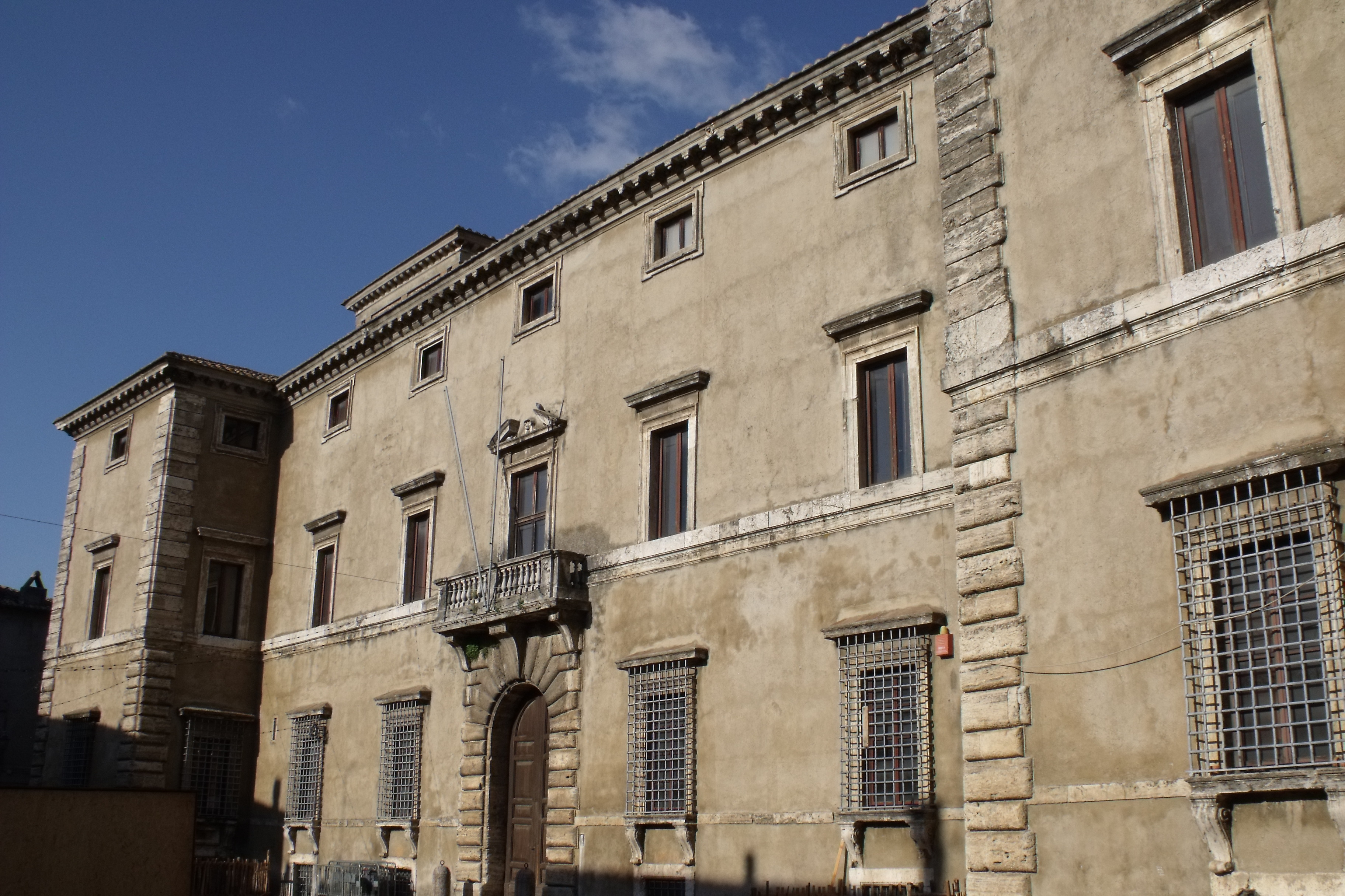 The Palazzo Cesi, seen from the Piazza Cesi in Acquasparta, Province of Terni, Umbria, Italy